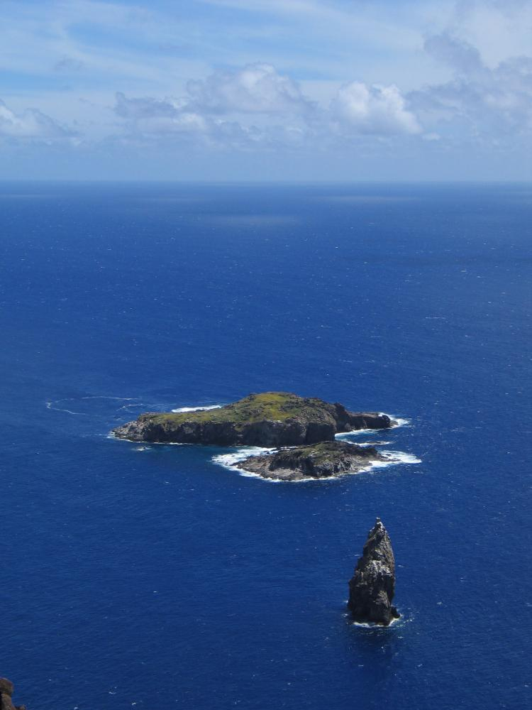 Motu Nui, with the smaller Motu Iti and the sea stack of Motu Kao Kao, taken from Orongo on the Rano Kau volcano on Easter Island